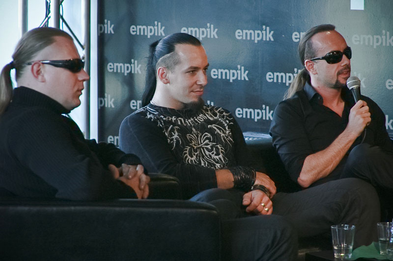 Behemoth band (from left: Zbigniew Promiński, Tomasz Wróblewski and Adam Darski) at Empik 30.09.2009